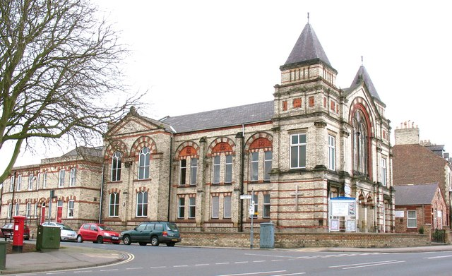 Southlands Methodist Church A large building in a flamboyant style using white and red brick with terracotta panels, and dating from 1887. I will leave it to the viewer to decide if this is an attractive building or not.